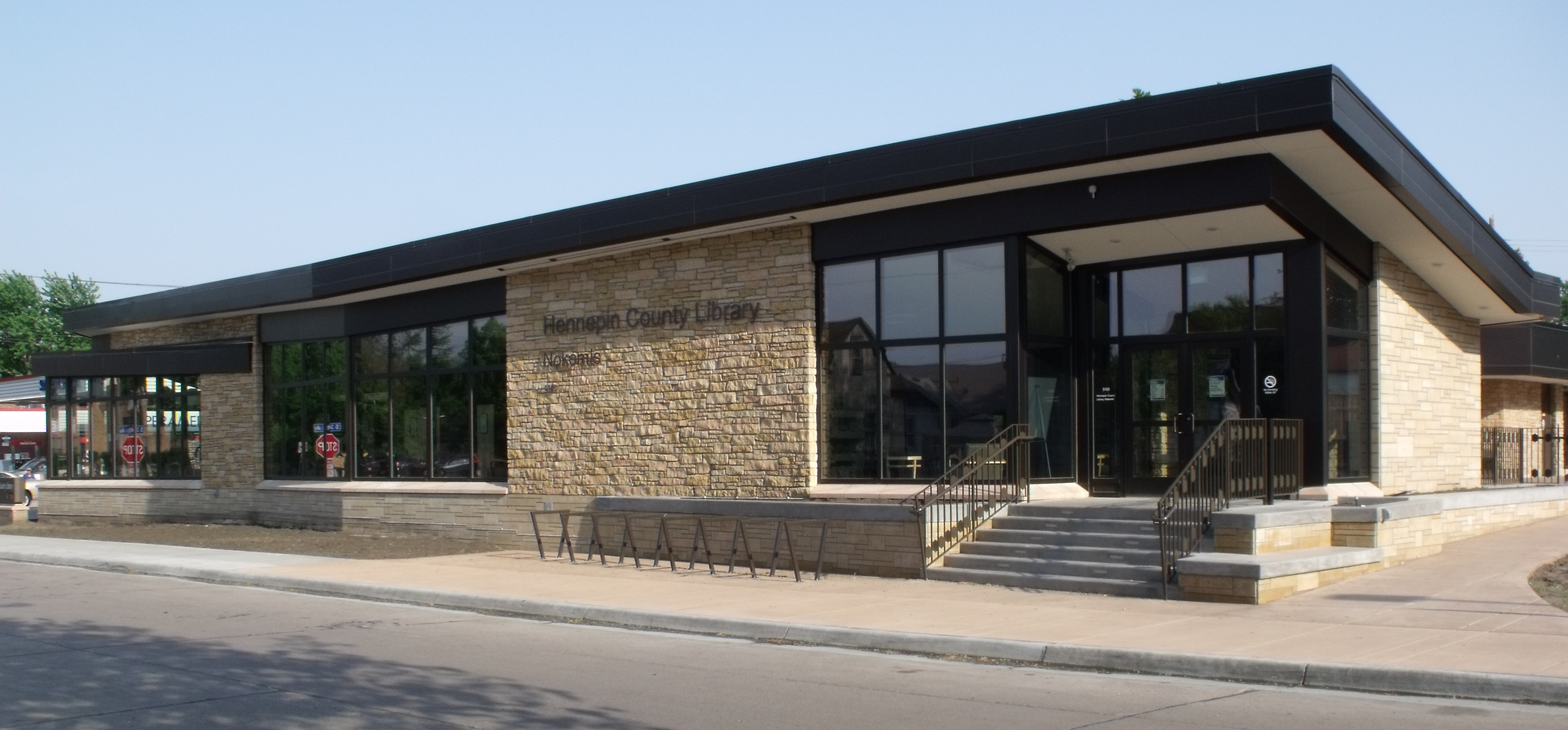 The Nokomis Community Library's renovated from 51st St., facing southeast.